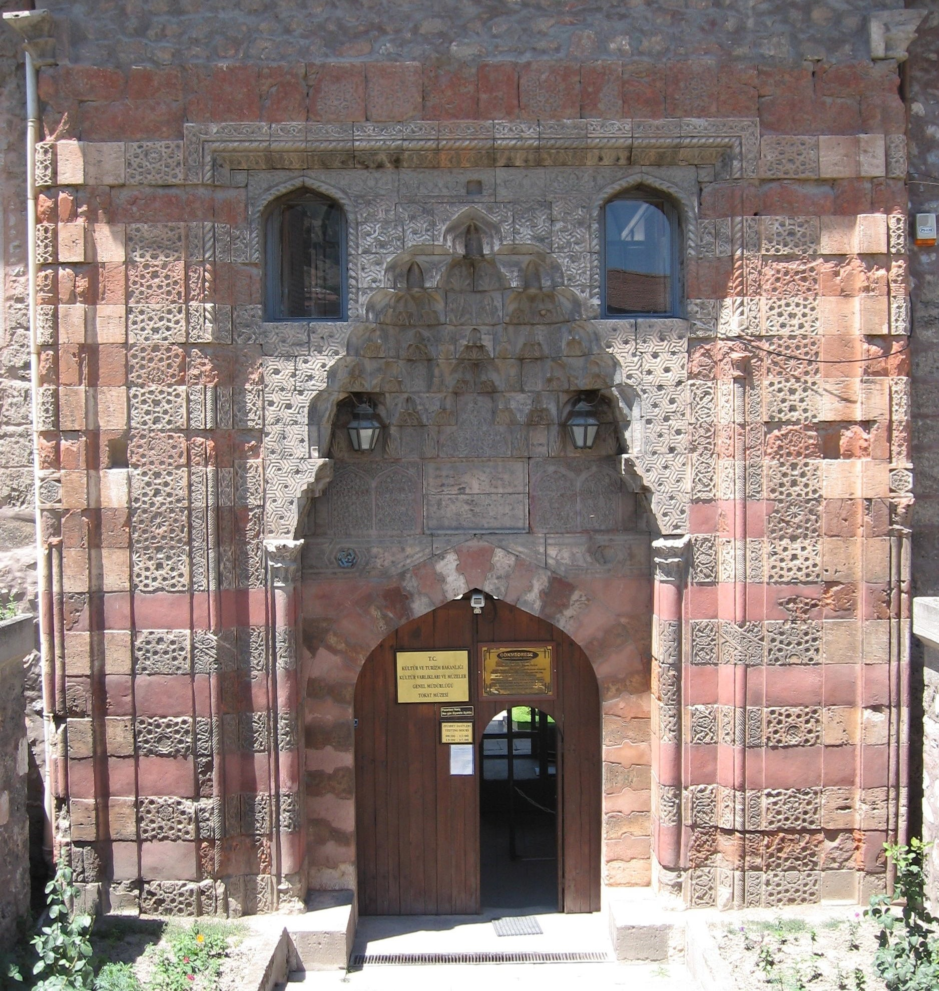 Gök Medrese at Tokat, built ca.1270.